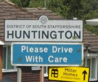 Road sign visible on entering Huntington Staffordshire. District of South Staffordshire. Please Drive with Care sign. Miller Homes sign. July 2012. Colour. Blue sign. White sign. Yellow sign.